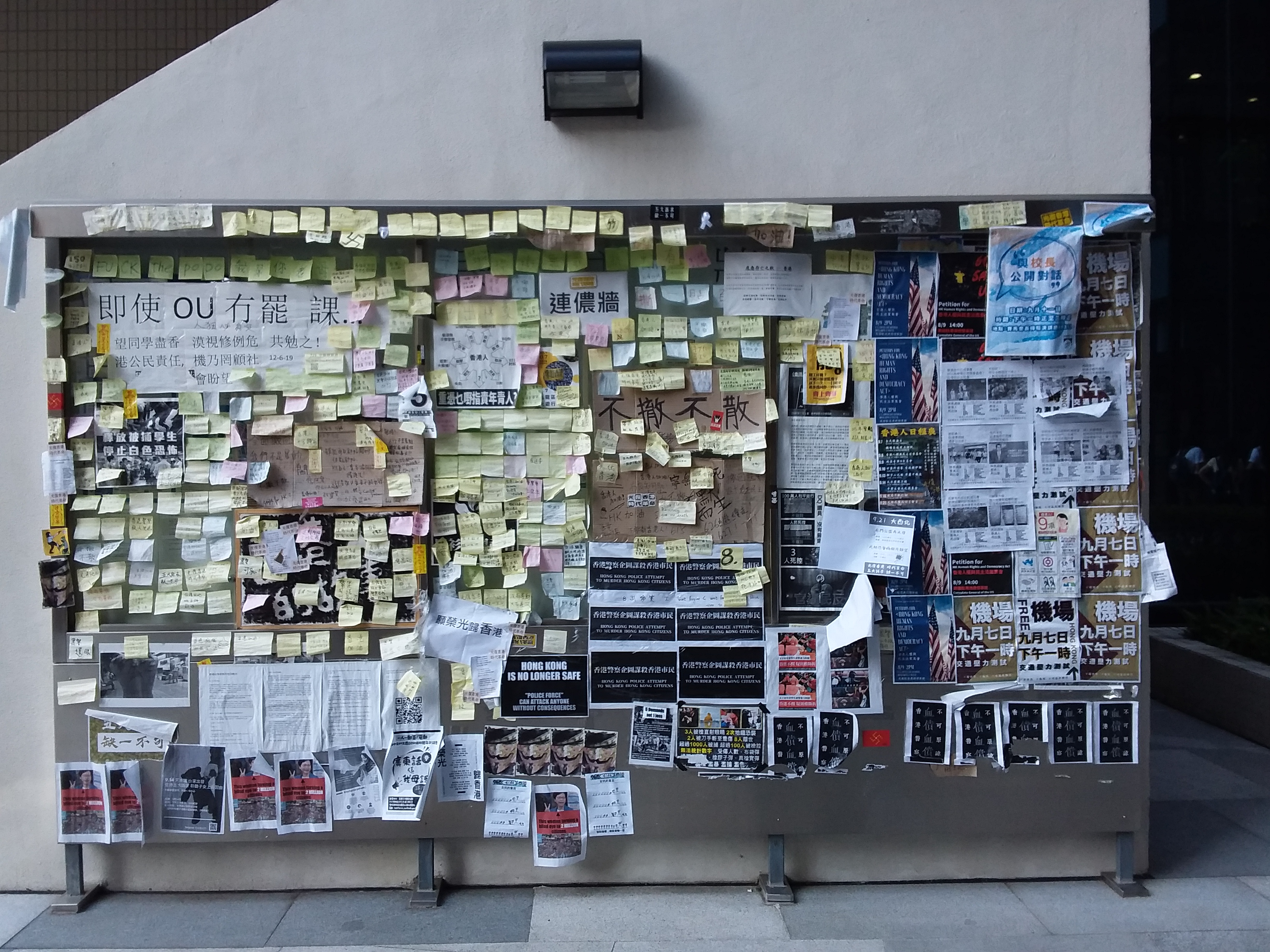 HK 何文田 Ho Man Tin 香港公開大學 OUHK Jockey Club Campus 忠孝街 Chung Hau Street in September 2019